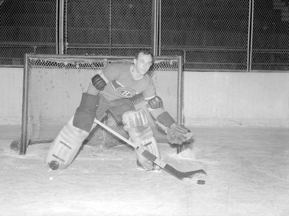 Paul Bibeault, goalkeeper for the Montreal Canadiens, is in front of goal on the ice of the Forum.